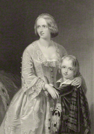 Portrait of Elizabeth, Duchess of Argyll and her son John Campbell, 9th Duke of Argyll